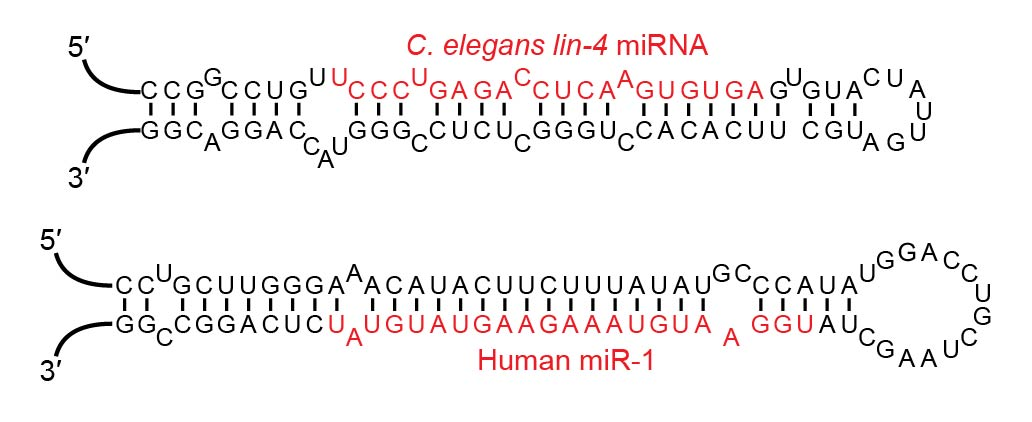 Examples of miRNA stem-loops, with the mature miRNAs shown in red. Shown are predicted stem-loop secondary structures within the pri-RNA molecules that give rise to the lin-4 miRNA of C. elegans and the miR-1 miRNA of humans. This figure was drawn based on studies that cloned and sequenced mature miRNAs and predicted the corresponding stem-loops. [1][2]